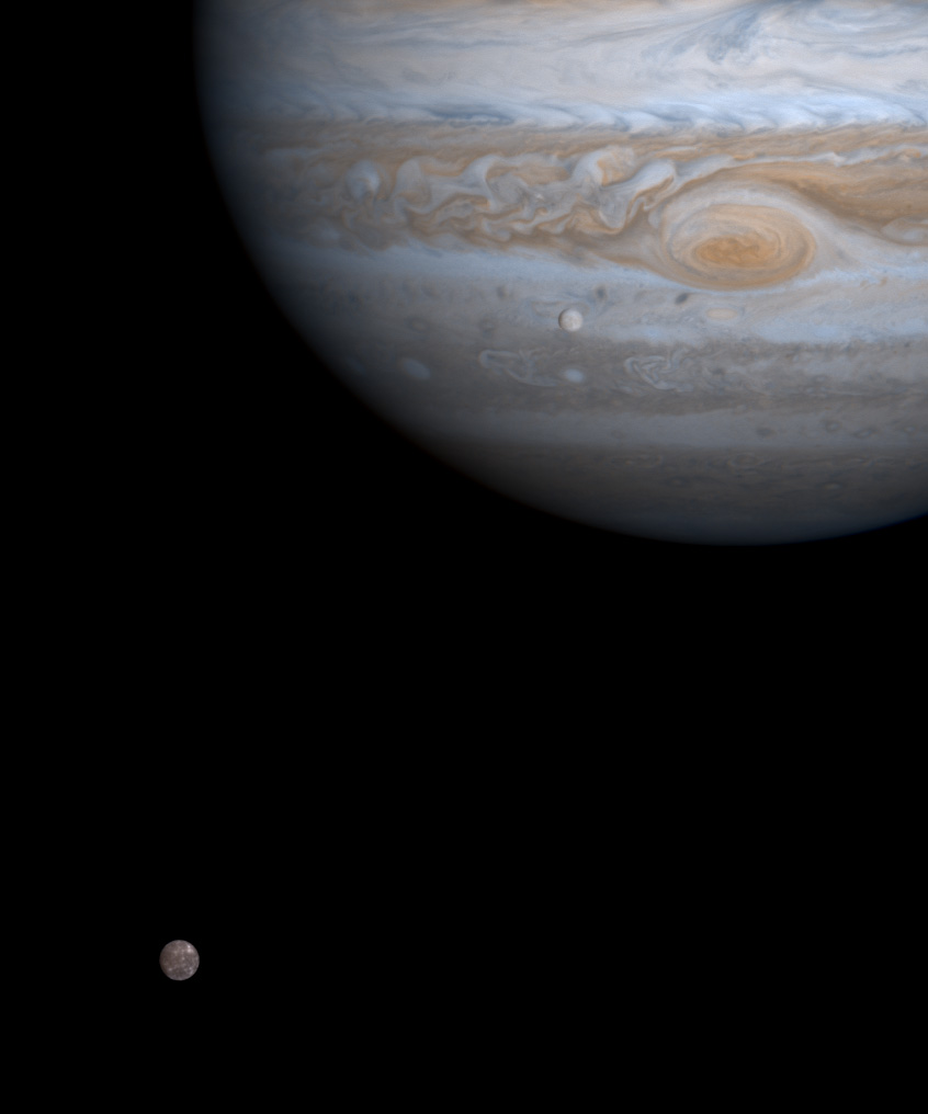 (From NASA's Jet Propulsion Laboratory) : "One moment in an ancient, orbital dance is caught in this color picture taken by NASA's Cassini spacecraft on Dec. 7, 2000, just as two of Jupiter's four major moons, Europa and Callisto, were nearly perfectly aligned with each other and the center of the planet. The distances are deceiving. Europa, seen against Jupiter, is 600,000 kilometers (370,000 miles) above the planet's cloud tops. Callisto, at lower left, is nearly three times that distance from the cloud tops. Europa is a bit smaller than Earth's Moon and has one of the brightest surfaces in the solar system. Callisto is 50 percent bigger -- roughly the size of Saturn's largest satellite, Titan -- and three times darker than Europa. Its brightness had to be enhanced in this picture, relative Europa's and Jupiter's, in order for Callisto to be seen in this image. Europa and Callisto have had very different geologic histories but share some surprising similarities, such as surfaces rich in ice. Callisto has apparently not undergone major internal compositional stratification, but Europa's interior has differentiated into a rocky core and an outer layer of nearly pure ice. Callisto's ancient surface is completely covered by large impact craters: The brightest features seen on Callisto in this image were discovered by the Voyager spacecraft in 1979 to be bright craters, like those on our Moon. In contrast, Europa's young surface is covered by a wild tapestry of ridges, chaotic terrain and only a handful of large craters. Recent data from the magnetometer carried by the Galileo spacecraft, which has been in orbit around Jupiter since 1995, indicate the presence of conducting fluid, most likely salty water, inside both worlds. Scientists are eager to discover whether the surface of Saturn's Titan resembles that of Callisto or Europa, or whether it is entirely different when Cassini finally reaches its destination in 2004."